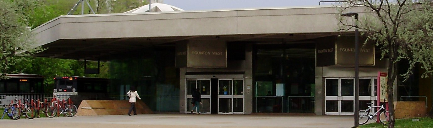 The Toronto Transit Commission's Eglinton West station in Toronto, Canada.